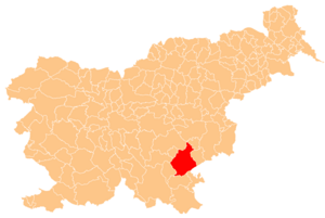 Localization of Novo mesto in Slovenia. The municipality has since split into two: Novo mesto and Šmarješke Toplice; the map still shows them as one.